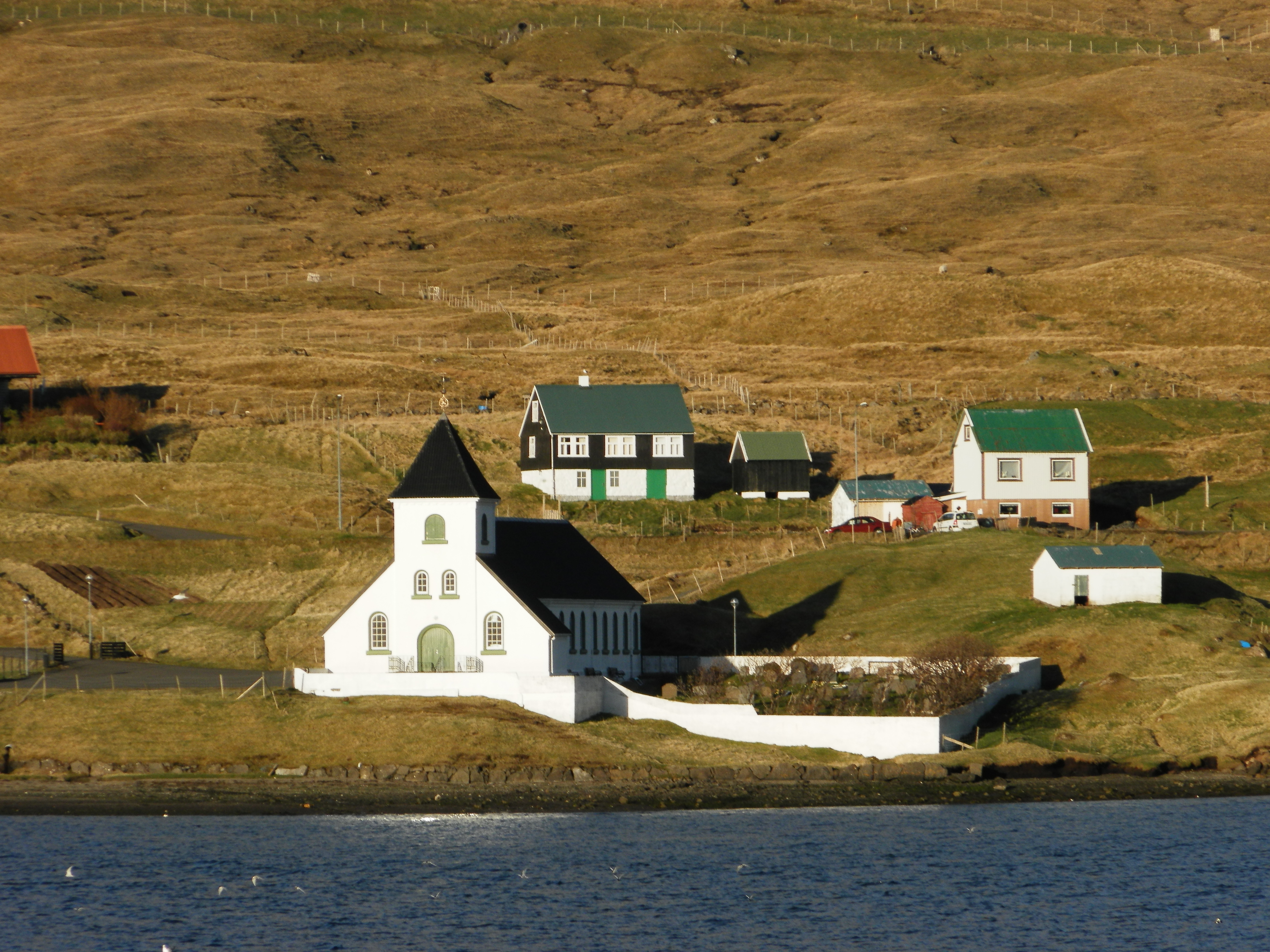 Norðskáli is a village on the west side of Eysturoy, Faroe Islands, it is near the Streymin Bridge, which is the only road connection between the to islands Eysturoy and Streymoy, but in 2014 the Faroese parliament decided to build a subsea tunnel between the two islands. This photo is taken from the small village Nesvík on Streymoy.